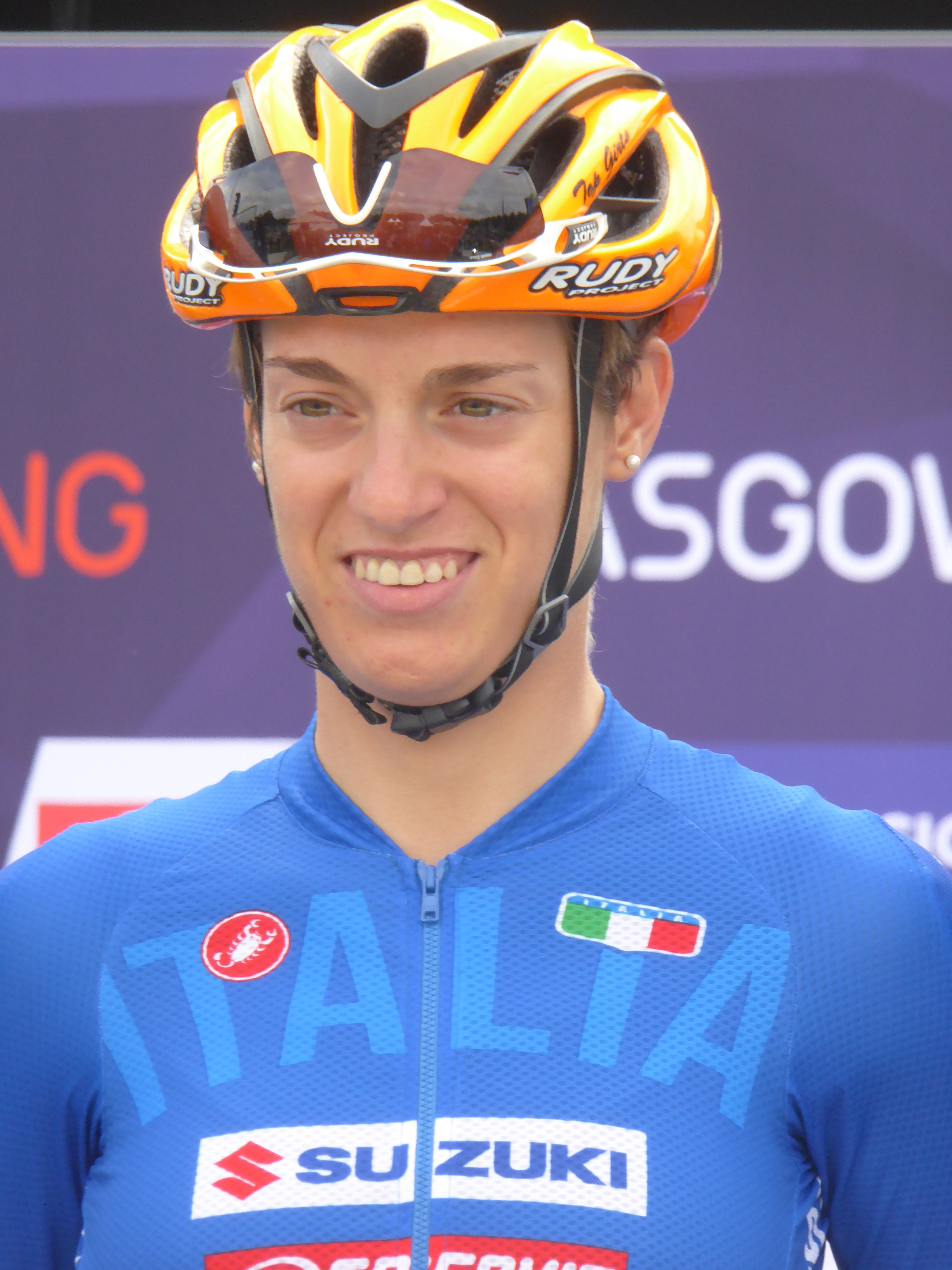 Nadia Quagliotto (Italy), prior to the women's road race at the 2018 UEC European Road Cycling Championships in Glasgow.